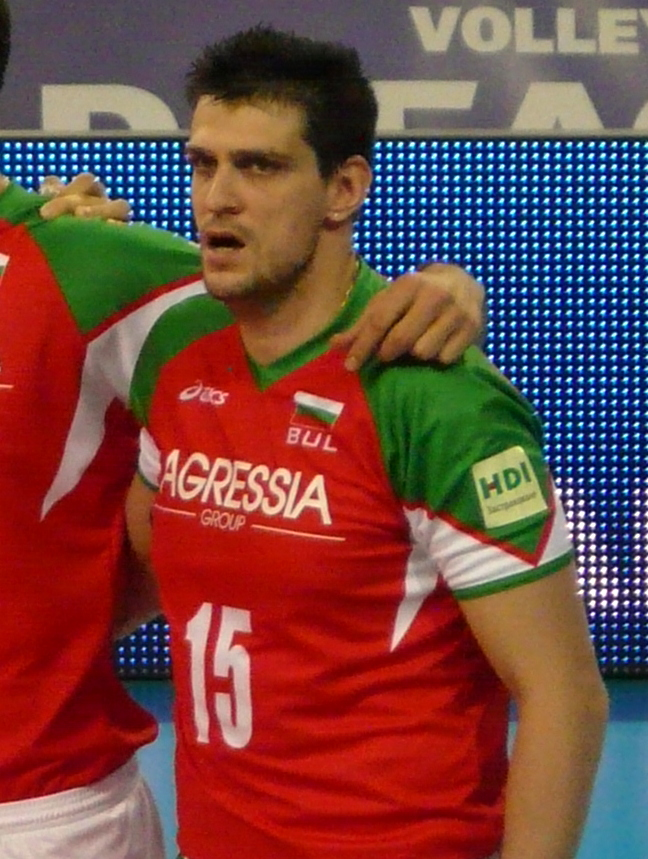 Todor Aleksiev - Bulgarian volleyball player. Photo taken at the FIVB WVL finals in Sofia, Bulgaria.